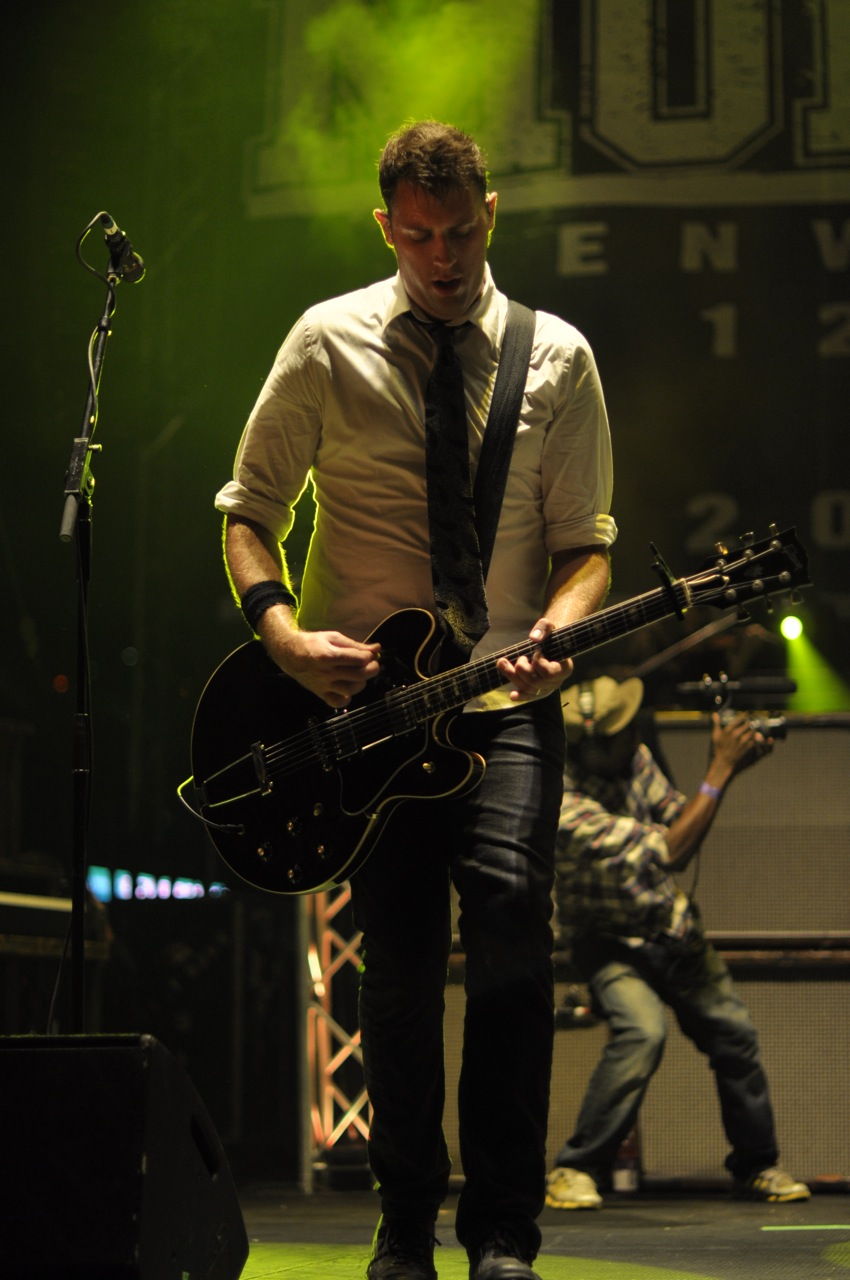 DropkickMurphys_Dig_fenway15